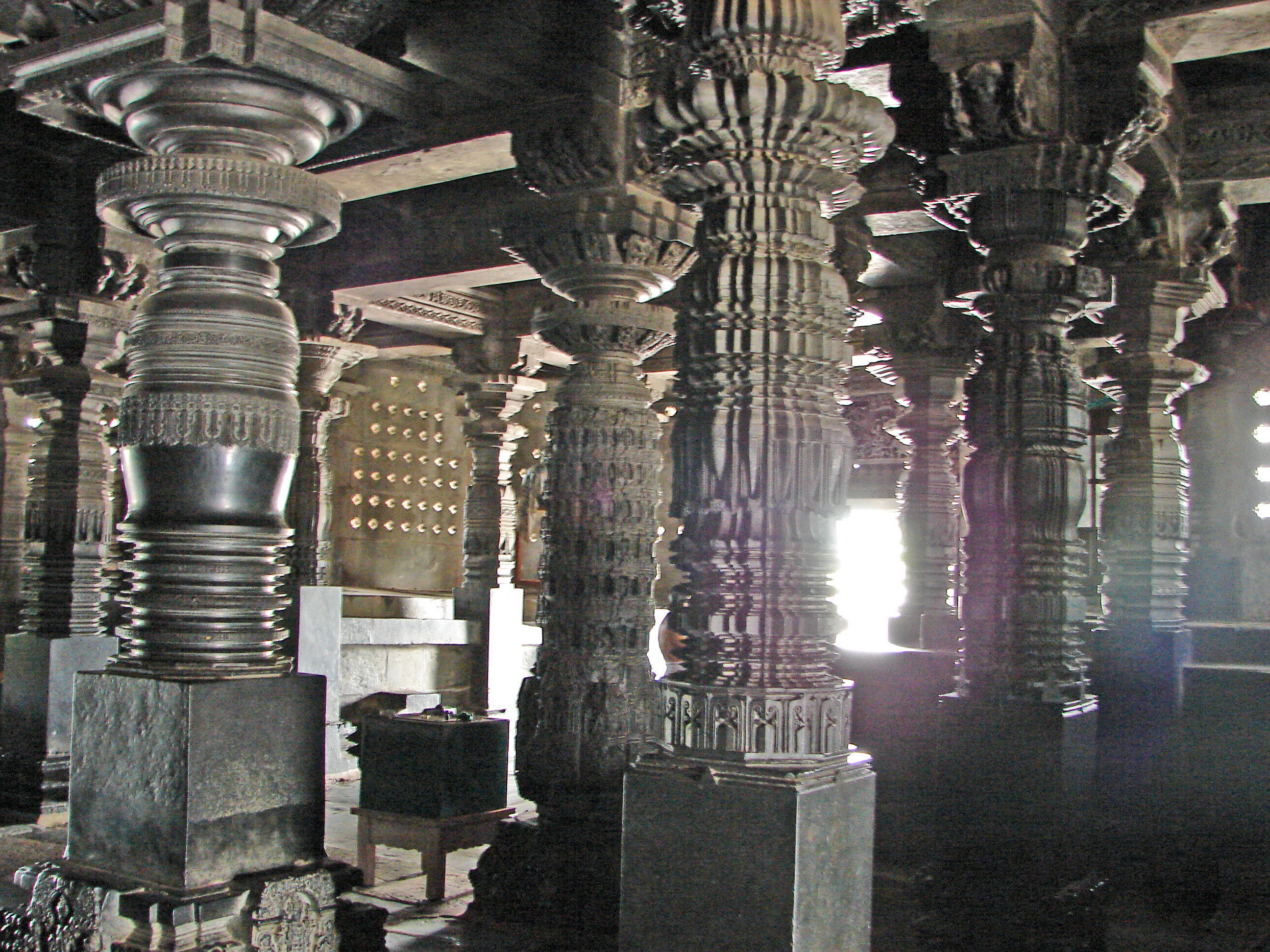 Photograph taken by me (Dineshkannambadi) at Chennakesava Temple in Belur, Karnataka state, India in June, 2006